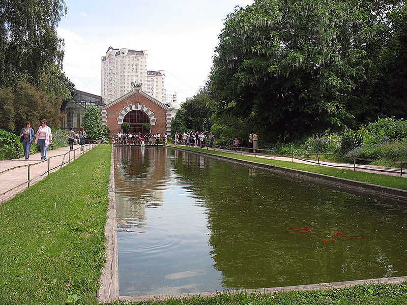 Apothecaries garden in Moscow, summer 2008.